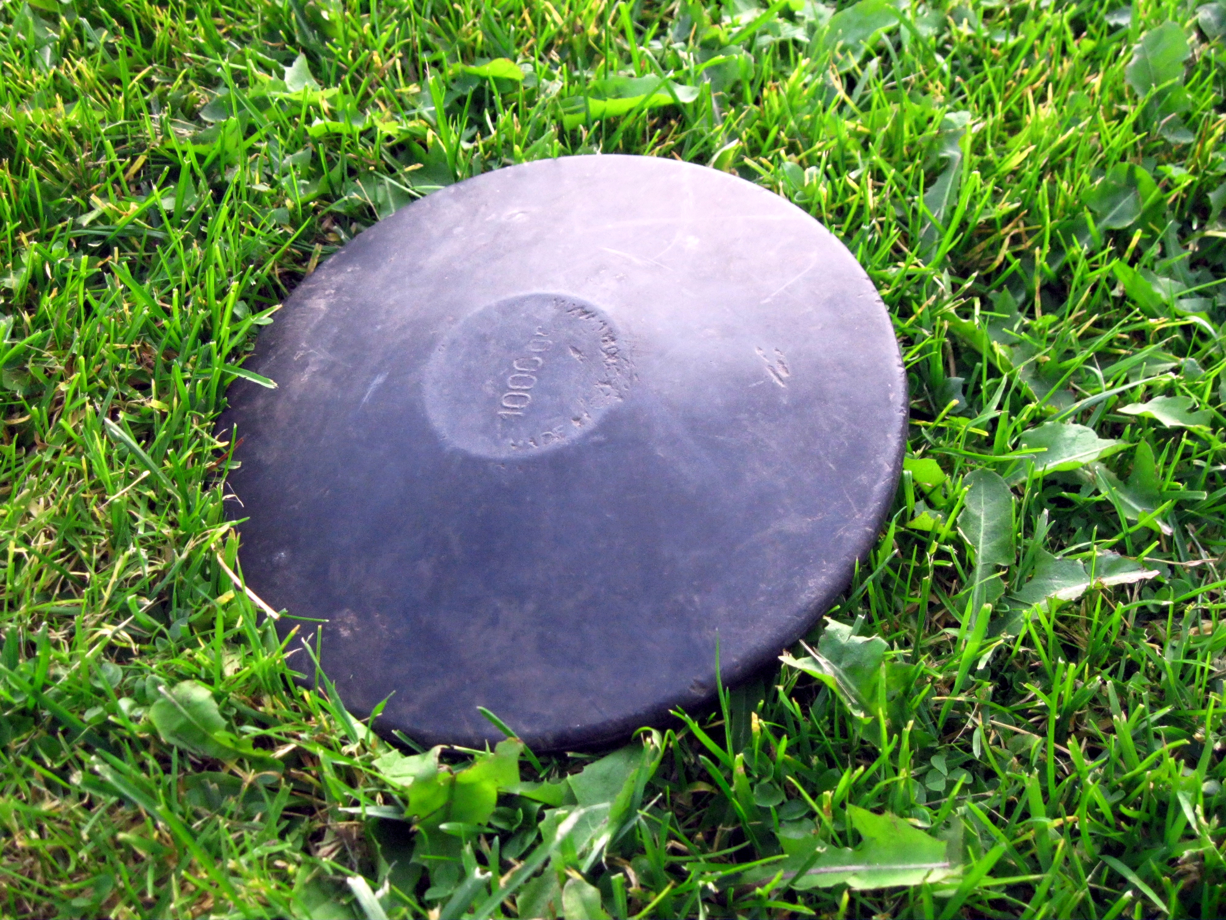 1 kg Discus